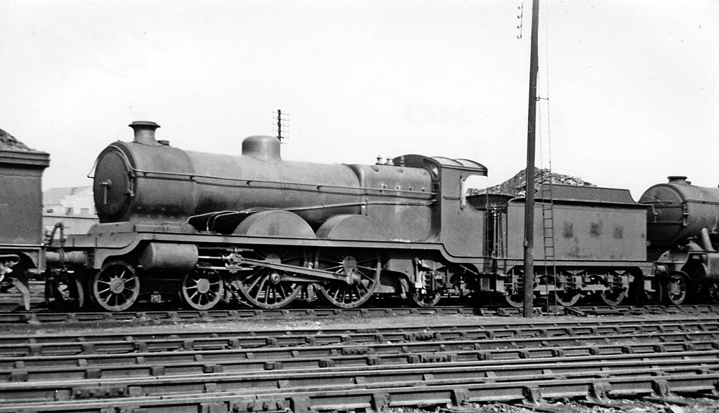 Ex-Great Central Robinson Atlantic at Lincoln Locomotive Depot. View southward, beside the lines west of Lincoln Central station. These C4 4-4-2's were the most handsome locomotives, nicknamed 'Jersey Lilies' after the celebrated Lillie Langtry, but by 1947 they had had their day, being relegated to secondary duties in the Lincolnshire flat-lands. Here No. 2903 is at the ex-Great Northern Depot, the Great Central Depot having ceased to be active since 1939.